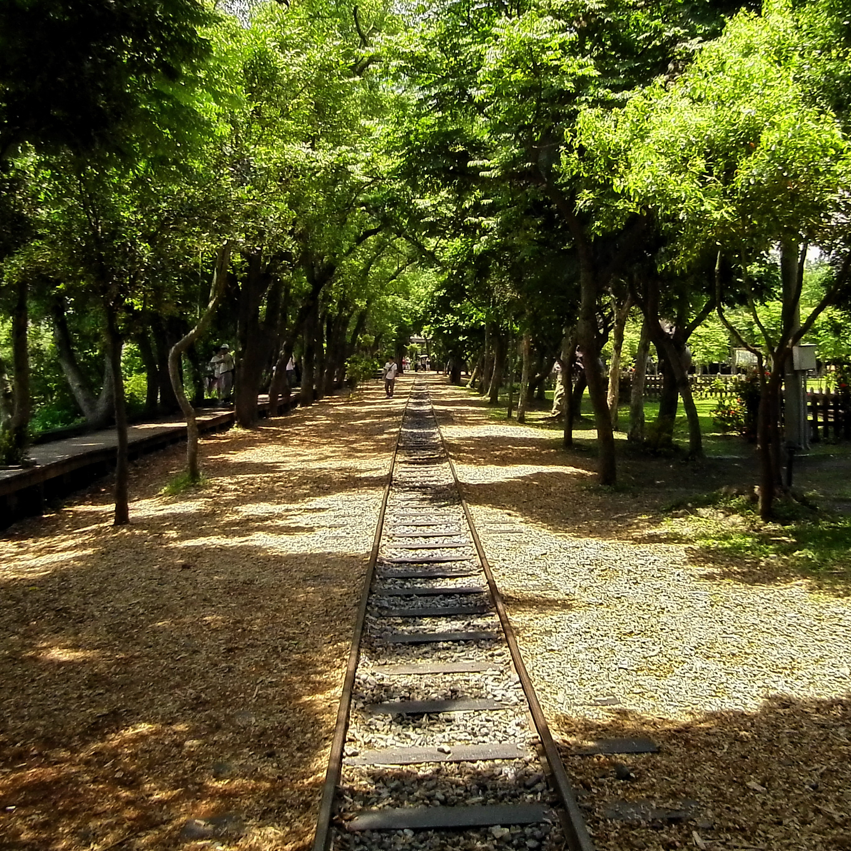 羅東林業文化園區 Luodong Forestry Culture Park